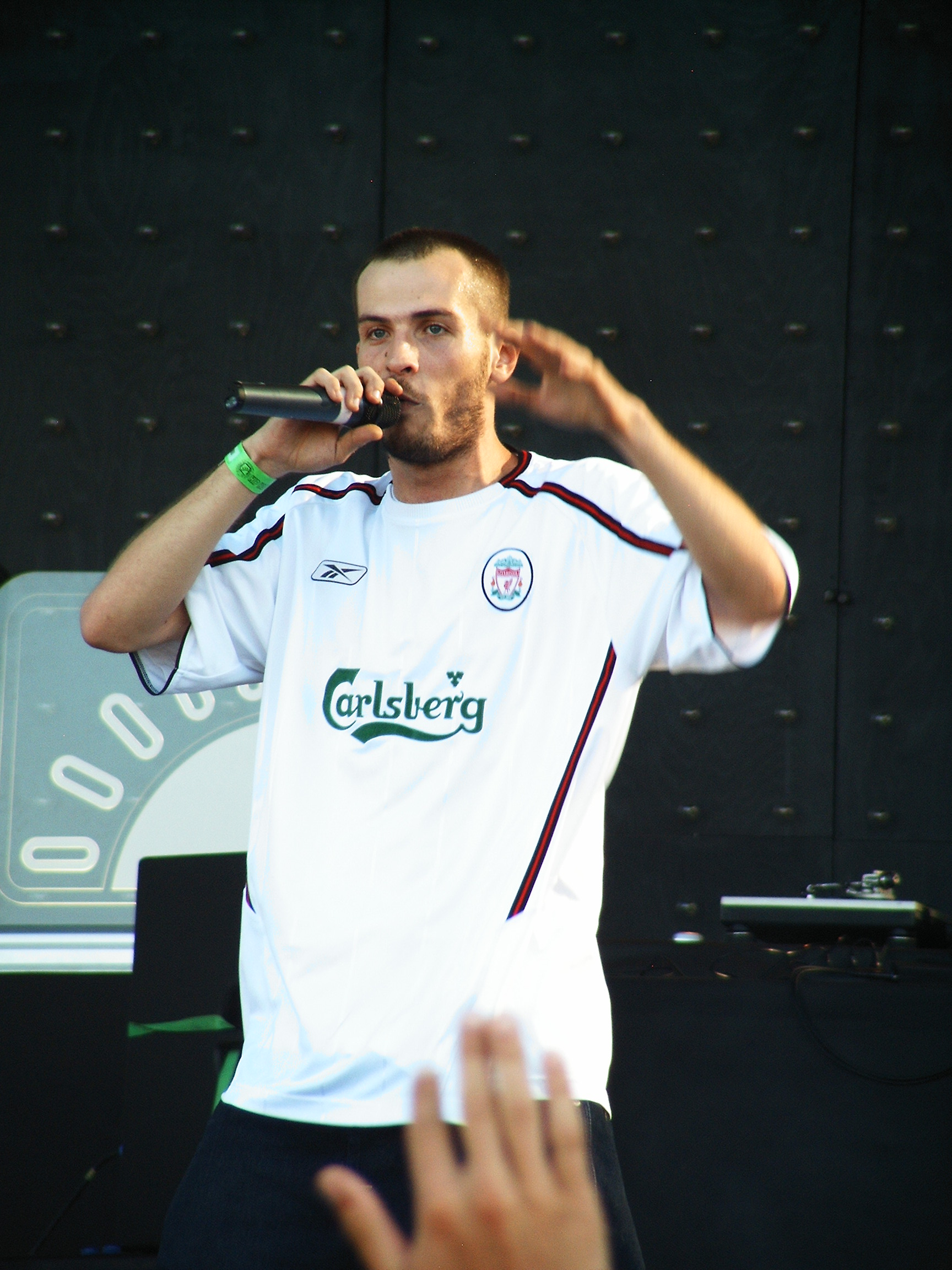 Polish Rapper OSTR at Hip Hop Kemp 2006